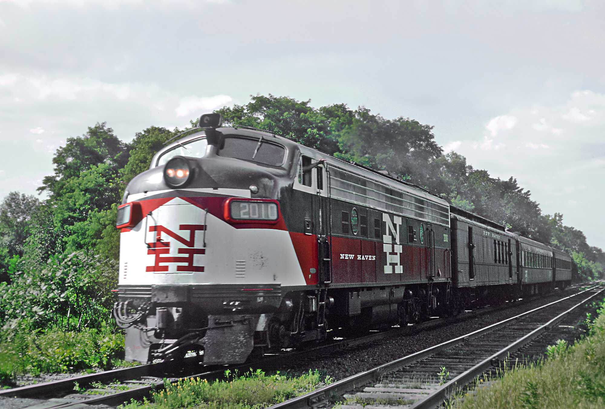 New Haven FL9 #2010 with Train #83, a Springfield, Massachusetts - New York City train, near Enfield, CT on July 20, 1968